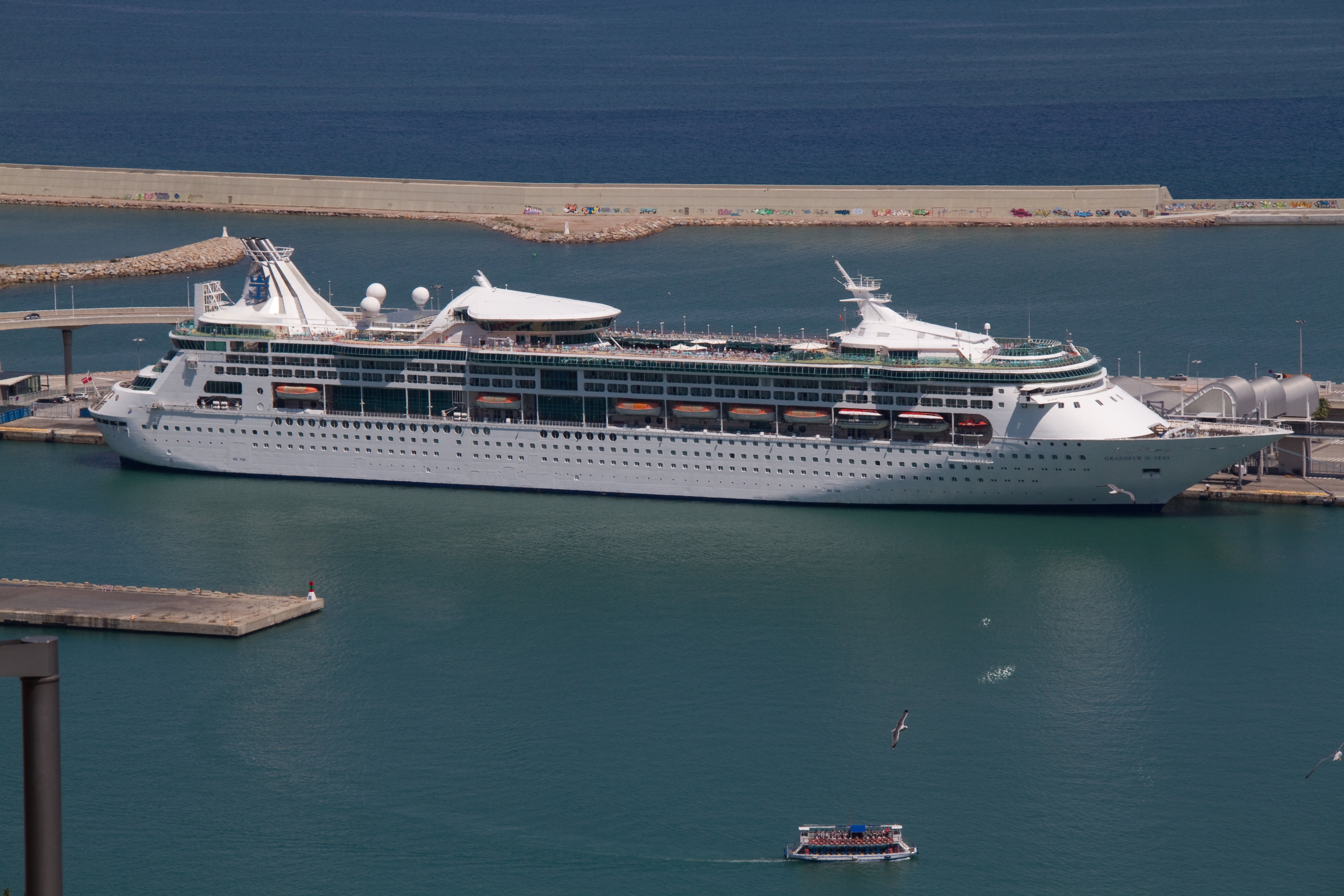 Grandeur of the Seas